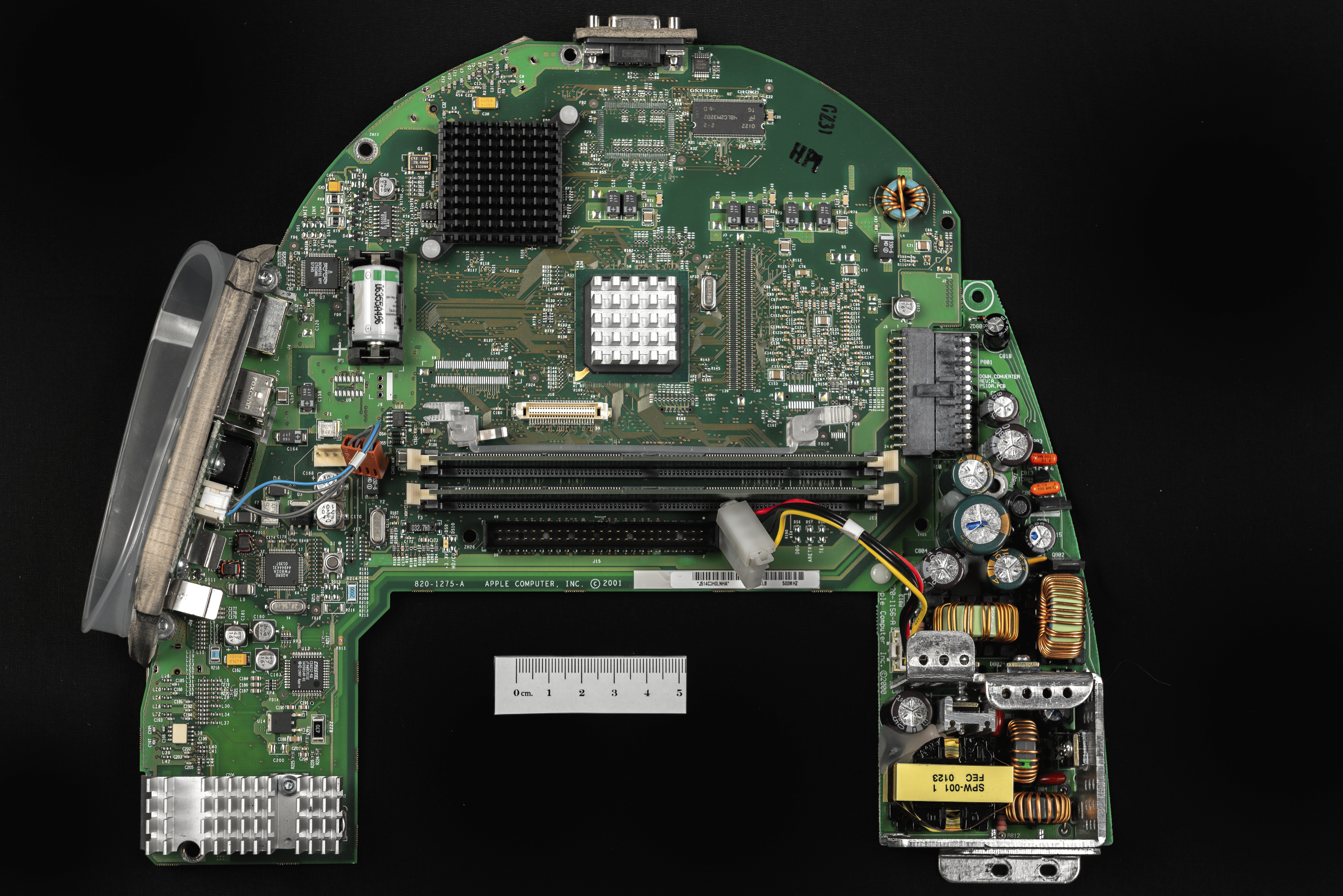 Apple iMac G3 – motherboard - front